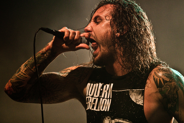 Tim Lambesis